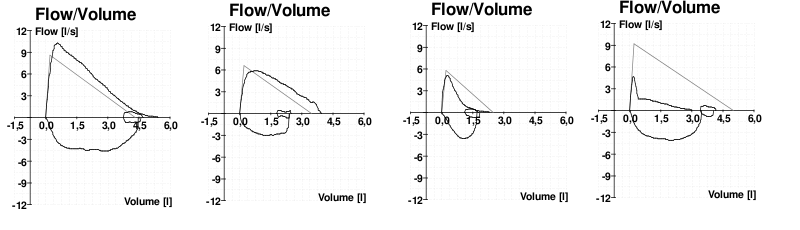 Flow Volume Curve, spirometry tests from a normal subject. from a poor effort, from an asthmatic patient and from a patient with COPD